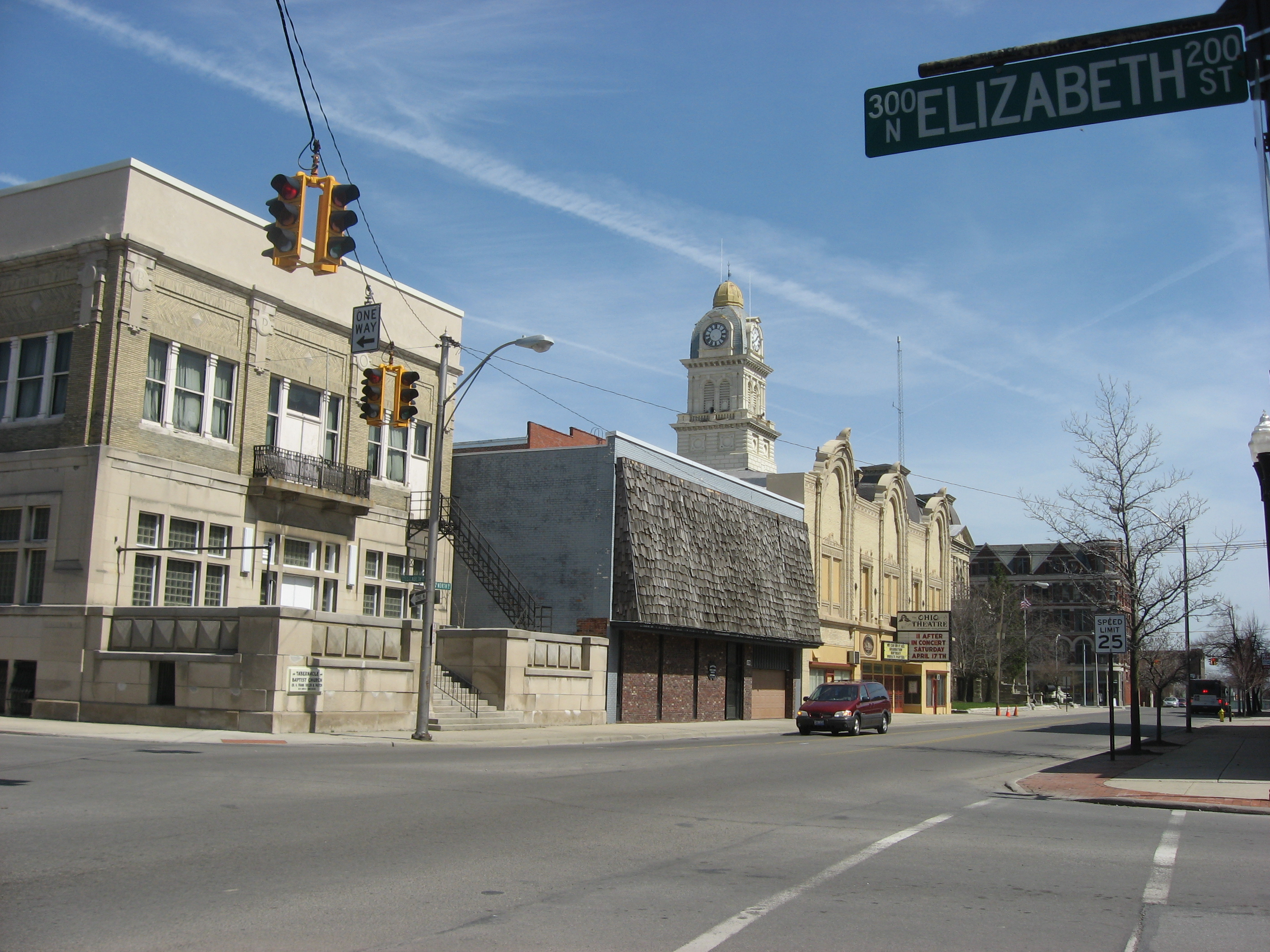 Buildings on the northern side of the 100 block of W. North Street in downtown Lima, Ohio, United States. Historic buildings include the former Elks Lodge on the left edge, the Ohio Theatre with the arches at the top of its façade, the Metropolitan Block behind the speed limit sign, and the Allen County Courthouse with its tower in the background. All four of these buildings are listed on the National Register of Historic Places.